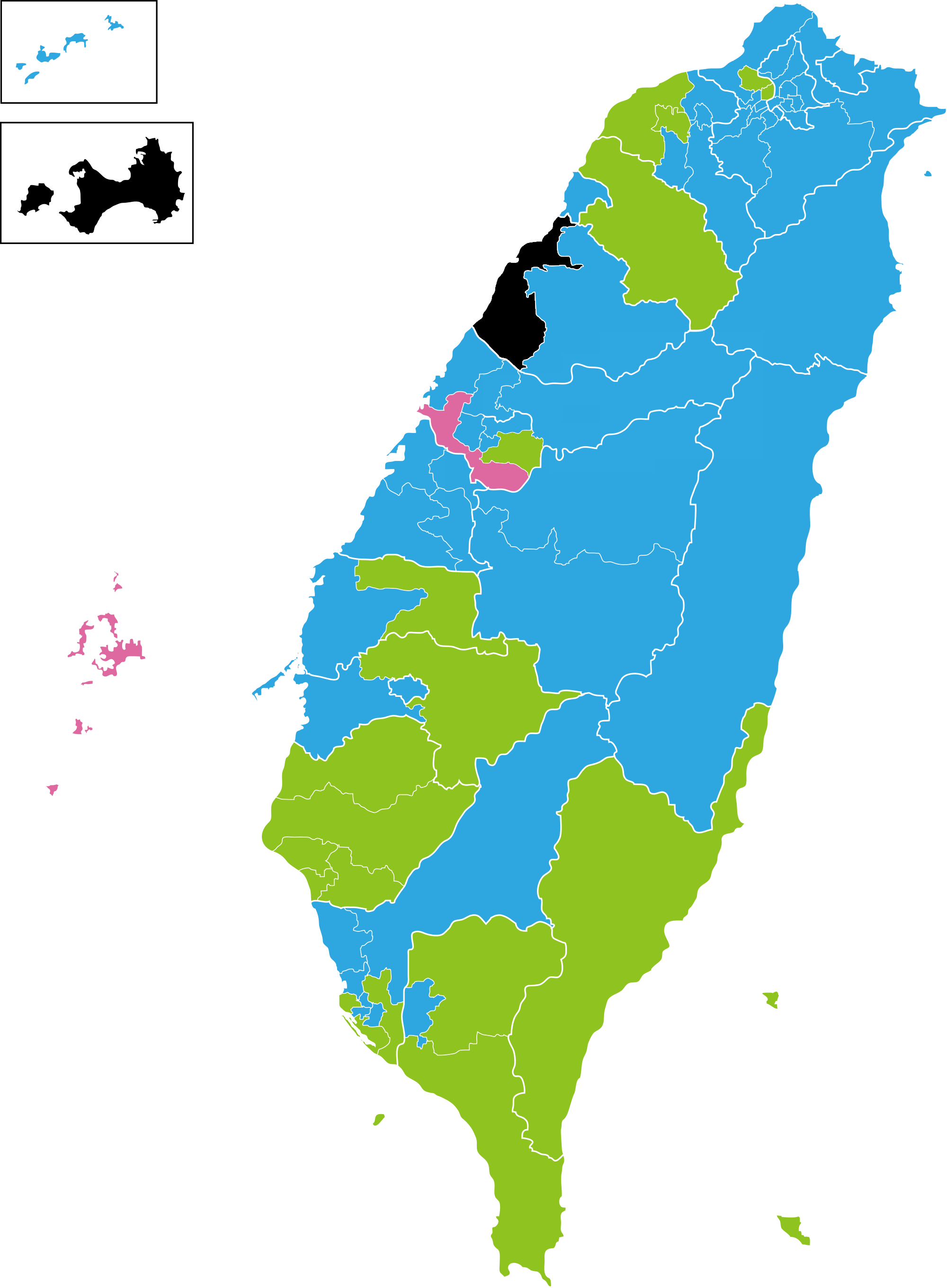 The party affiliation of the Electorate Legislators as at May 2010, of the Republic of China's Legislative Yuan. Please note that this takes into account not only the 2008 Republic of China Legislative Yuan Election, but also the 11 by-elections that took place within 2009 and early 2010.